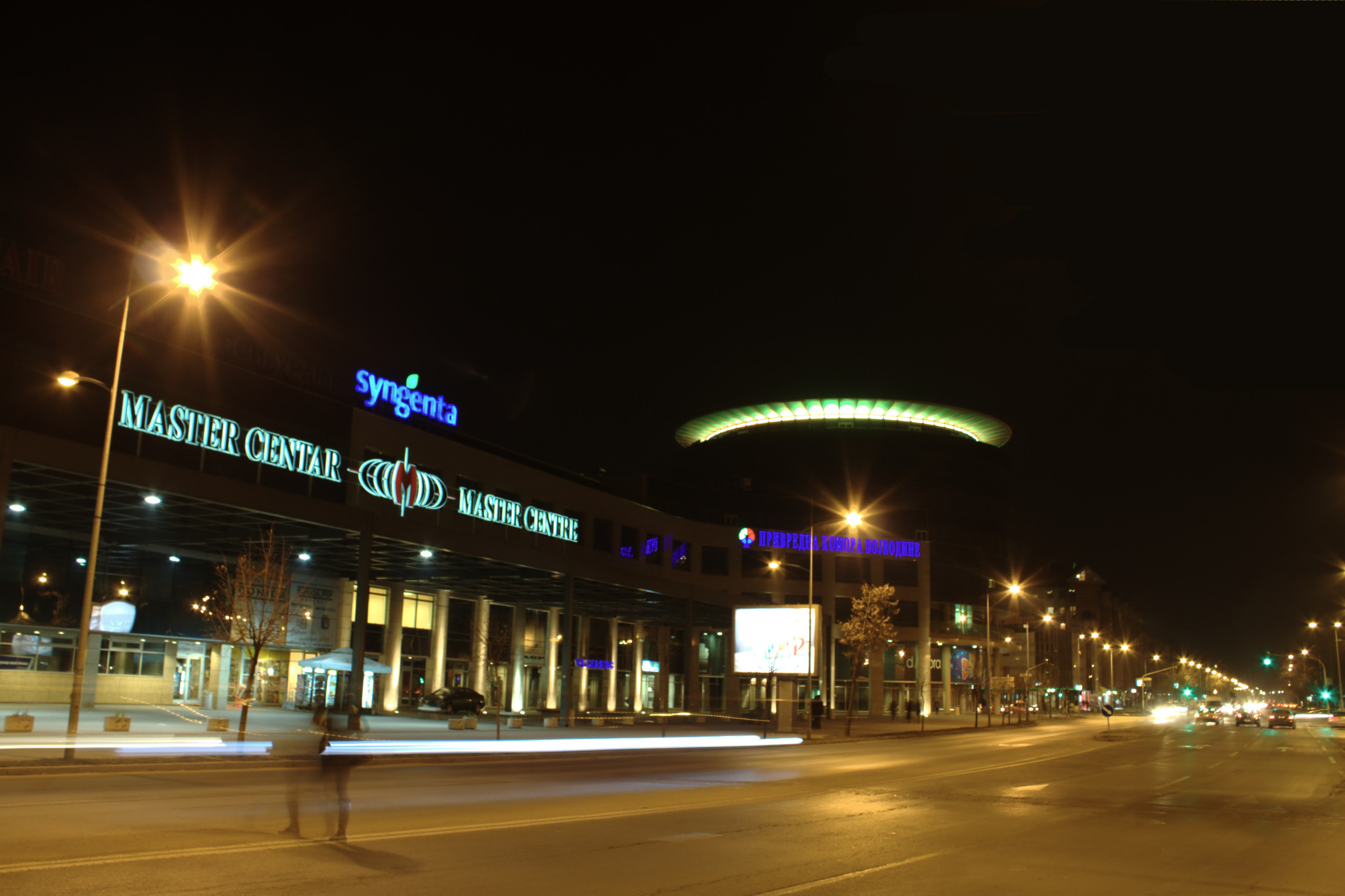 Exhibition centre "Novosadski Sajam" by night at the corner of "Hajduk Veljkova" and "Kralja Petra I" streets; Novi Sad, Serbia